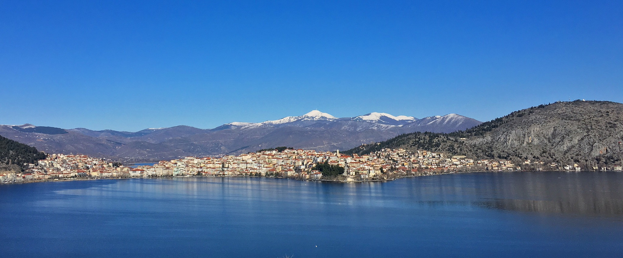 Cropped version of Kastoria Nature.jpg by Geosfot